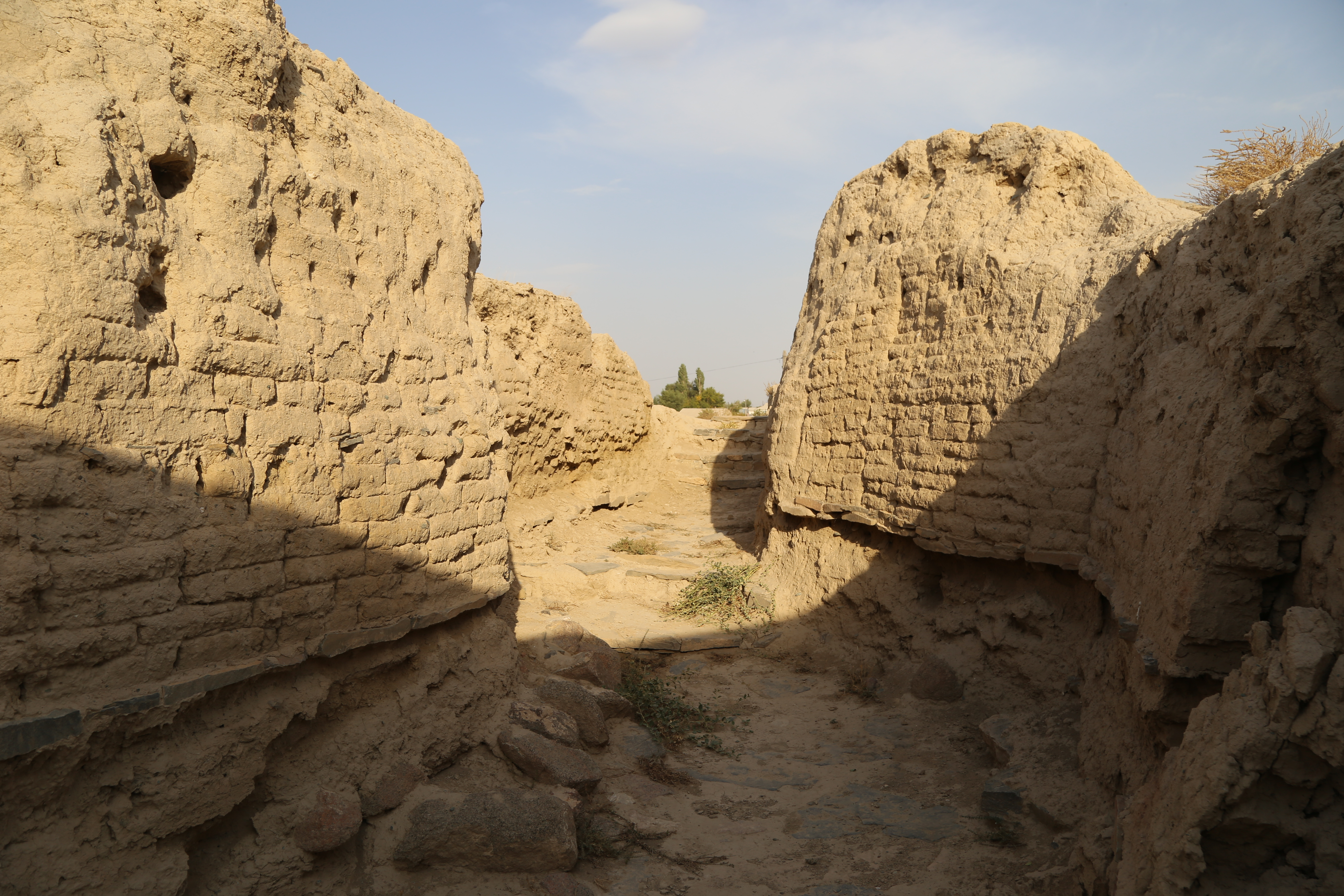 Tamdy Hillfort